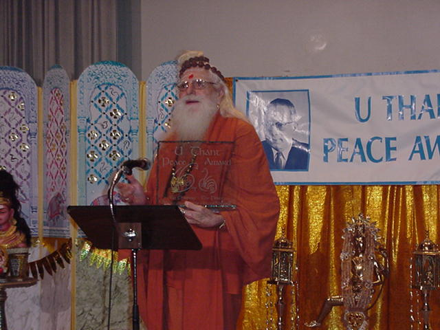 Satguru Sivaya Subramuniyaswami (Gurudeva) receiving the U Thant Peace Award in 2000